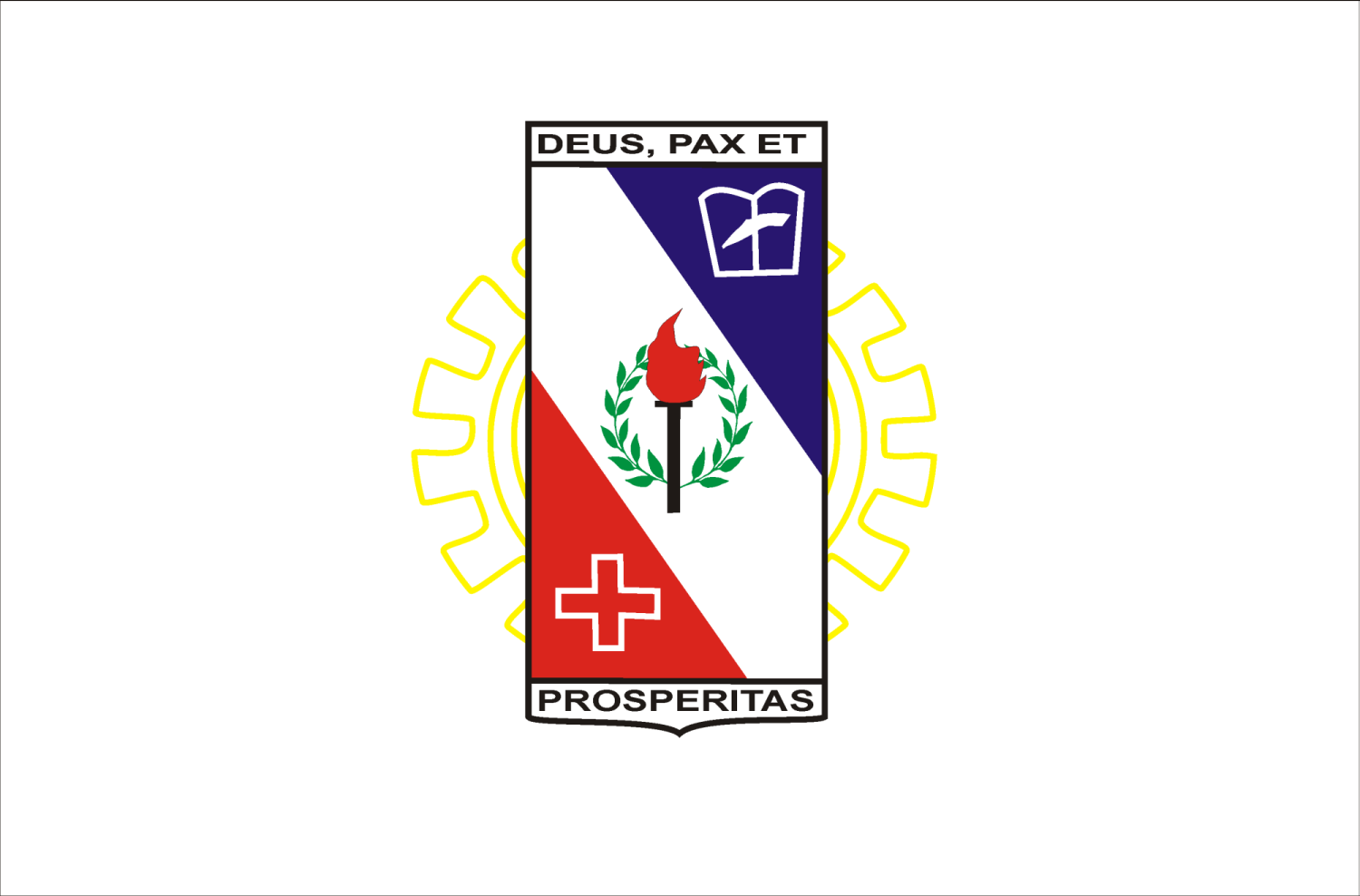 Flag of Coronel Fabriciano, Minas Gerais, Brazil.